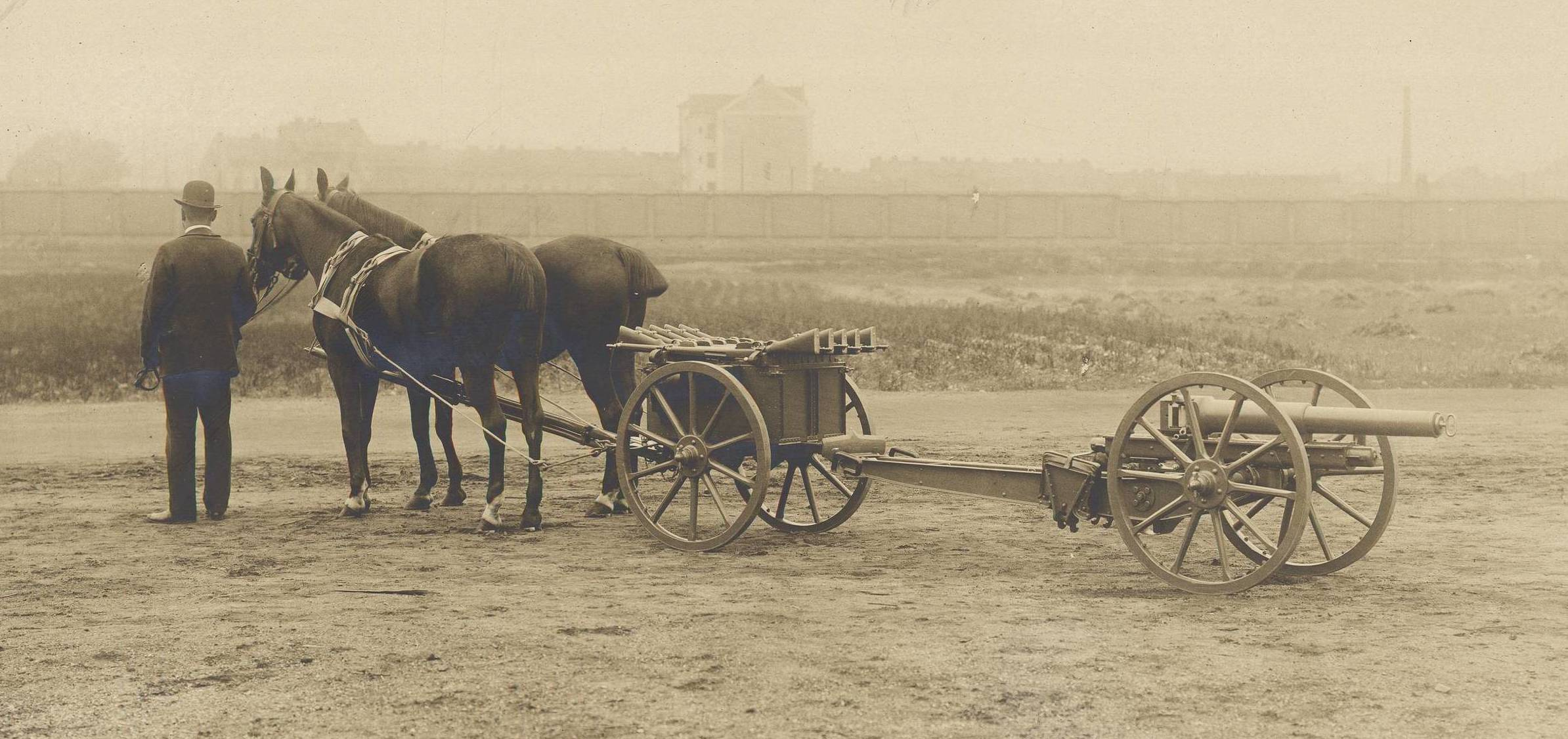 Skoda 70 mm field gun pulled by horses